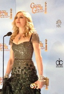 69th Annual Golden Globes Awards.